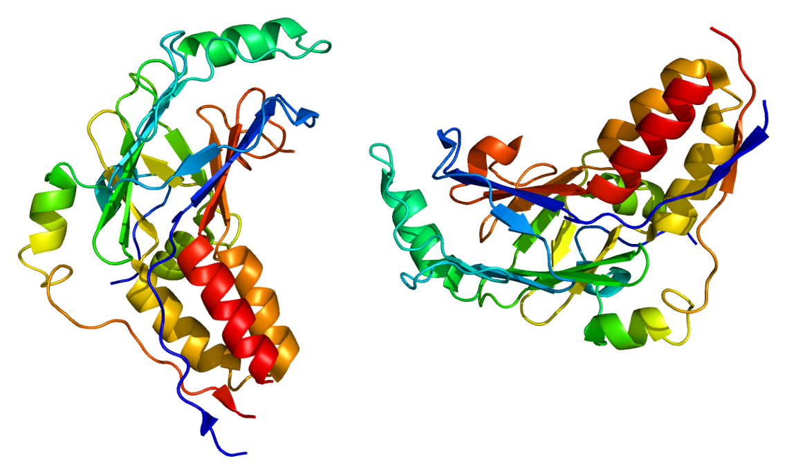 Structure of the SMAD2 protein. Based on PyMOL rendering of PDB 1dev.